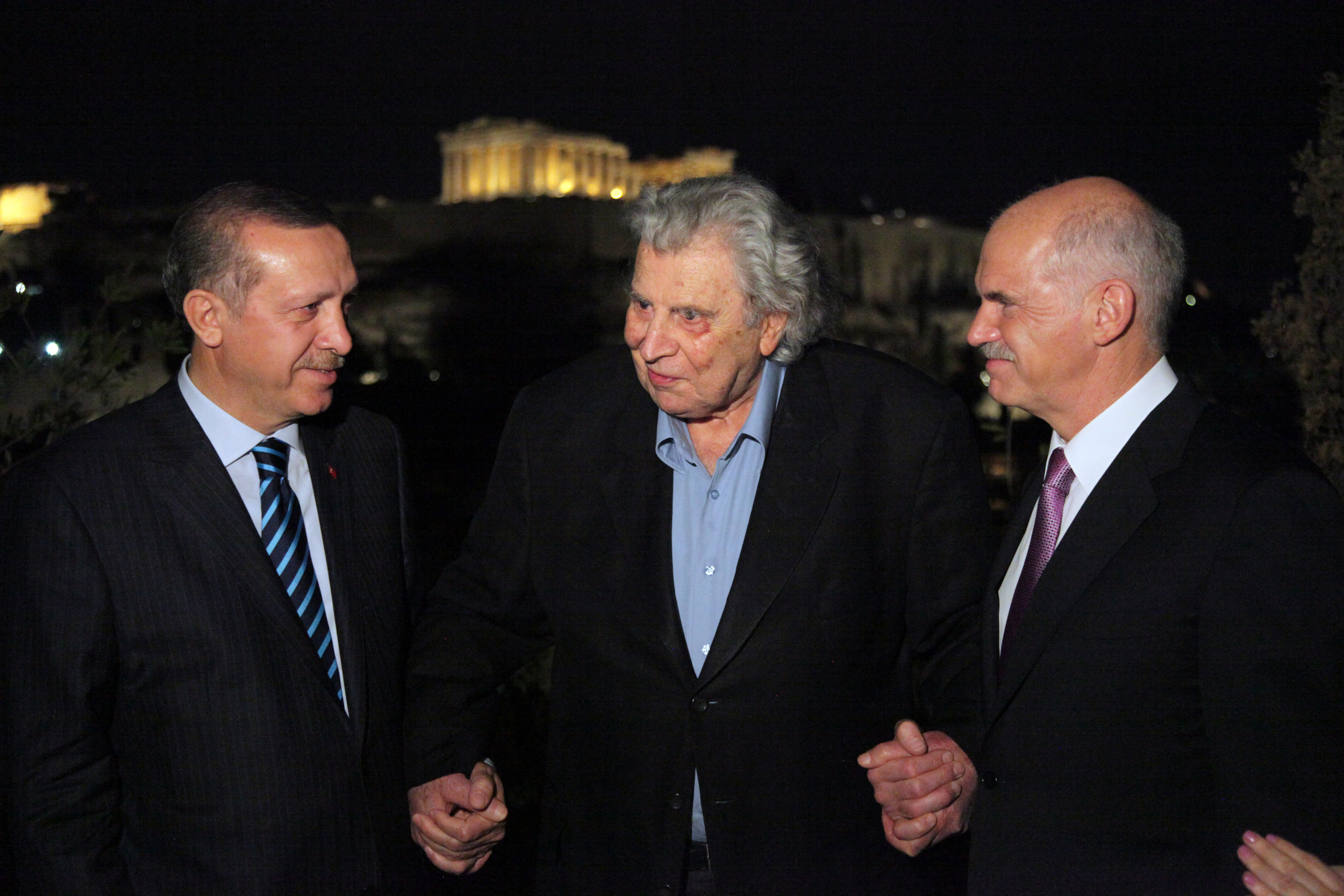 Turkish prime minister Recep Tayyip Erdoğan, Greek composer Mikis Theodorakis and Greek prime minister George Papandreou in Athens, May 2010. original description was